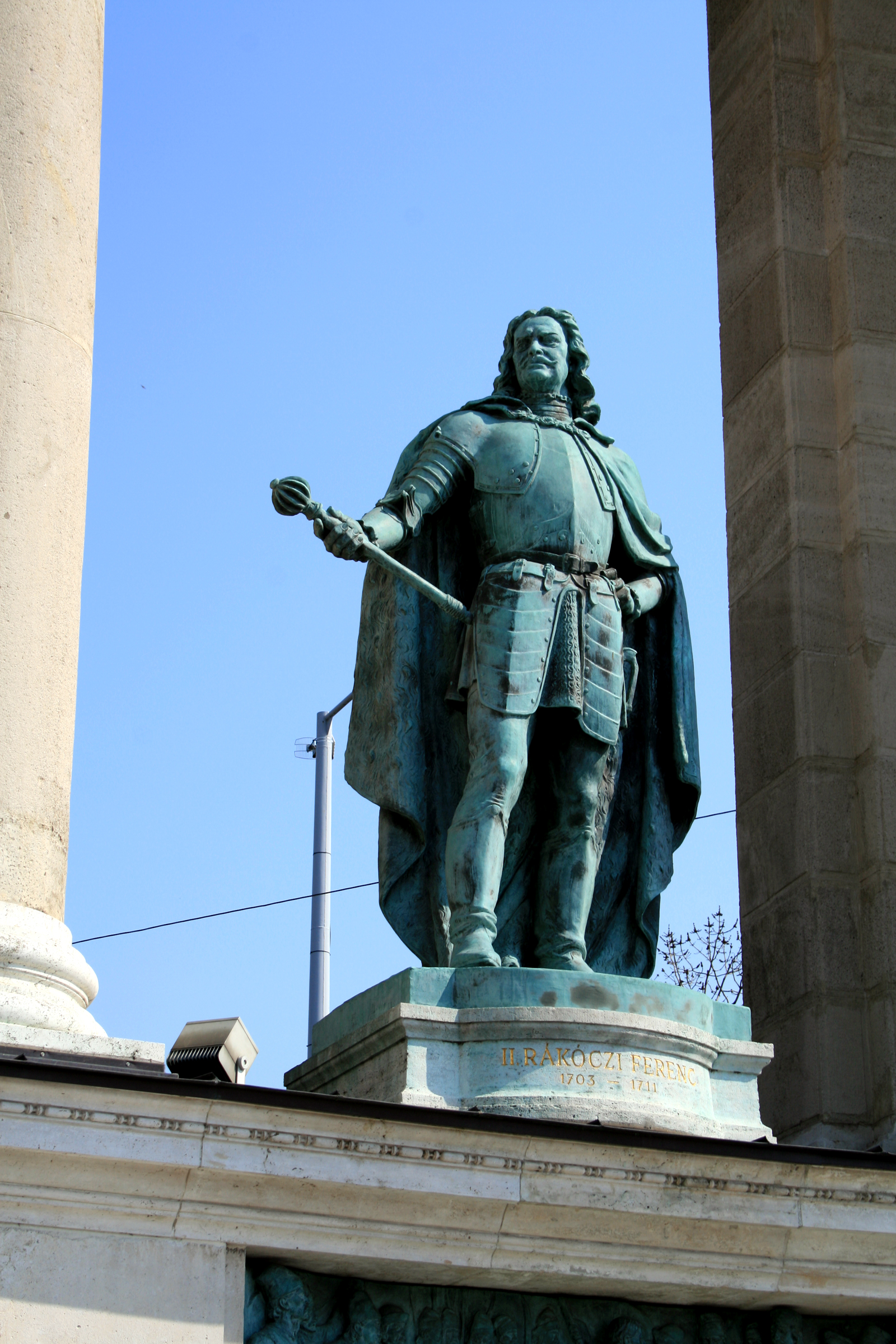 Statue of Francis II Rákóczi - Francis II Rákóczi, Millenium Monument on Heroes' square, Budapest, Budapest, Hungary